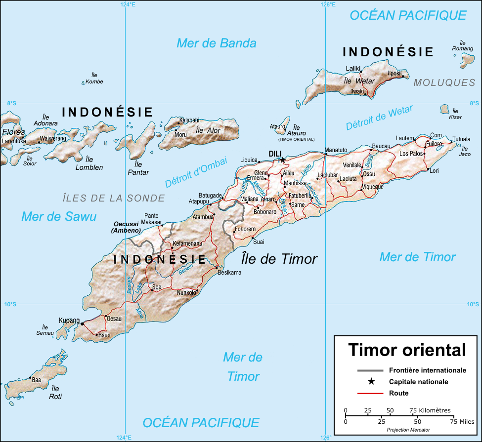 Map in French of East Timor.